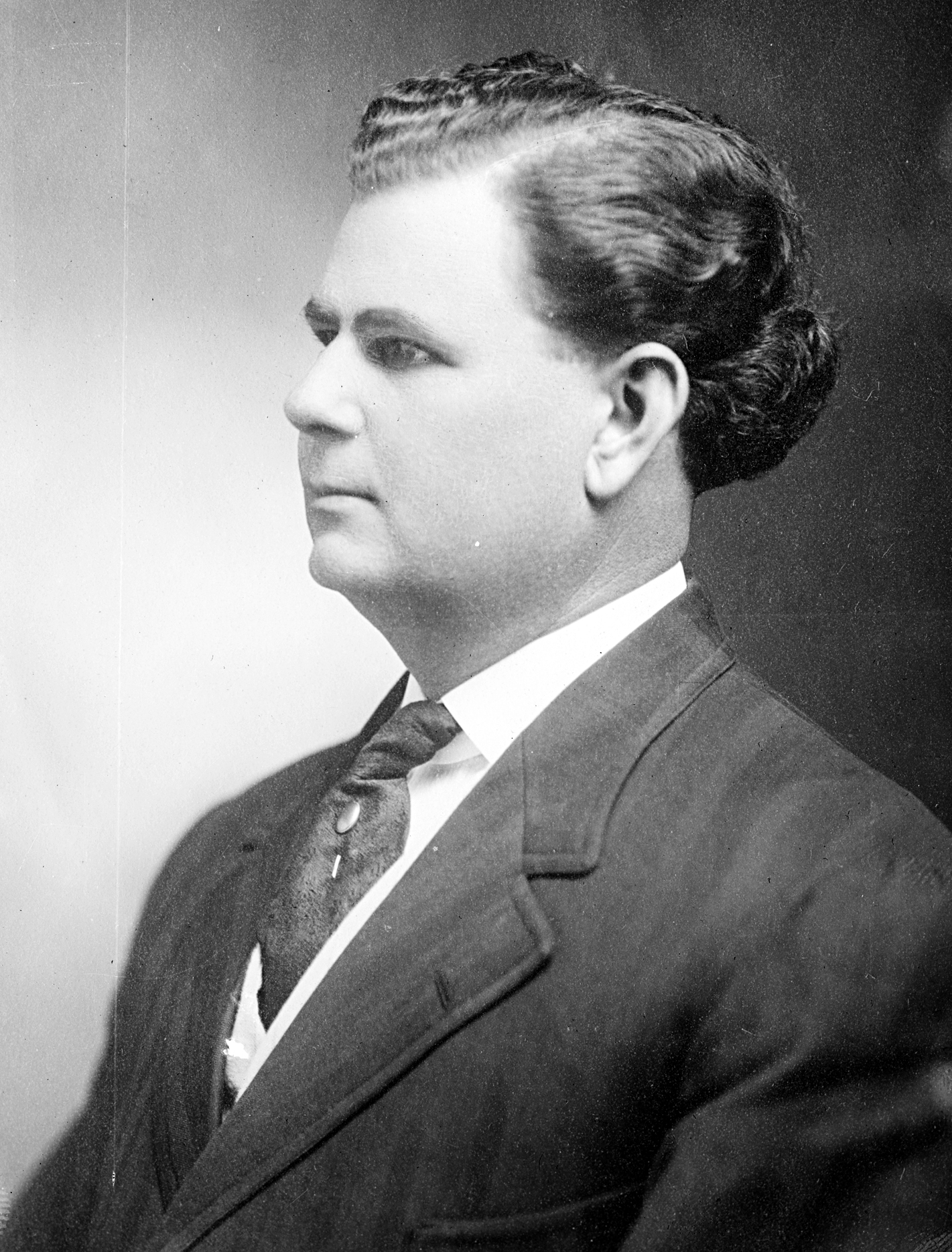 Park Trammell, US Senator from Florida and Governor of that state